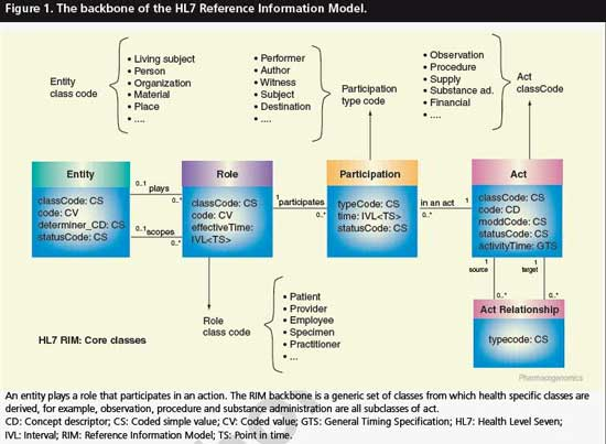 HL7 is the most dominant standardization body in the area of health messaging. Its scope covers the next level of standardization built on the standardized terminologies. HL7 develops standards for the specification of messages and documents in different areas.